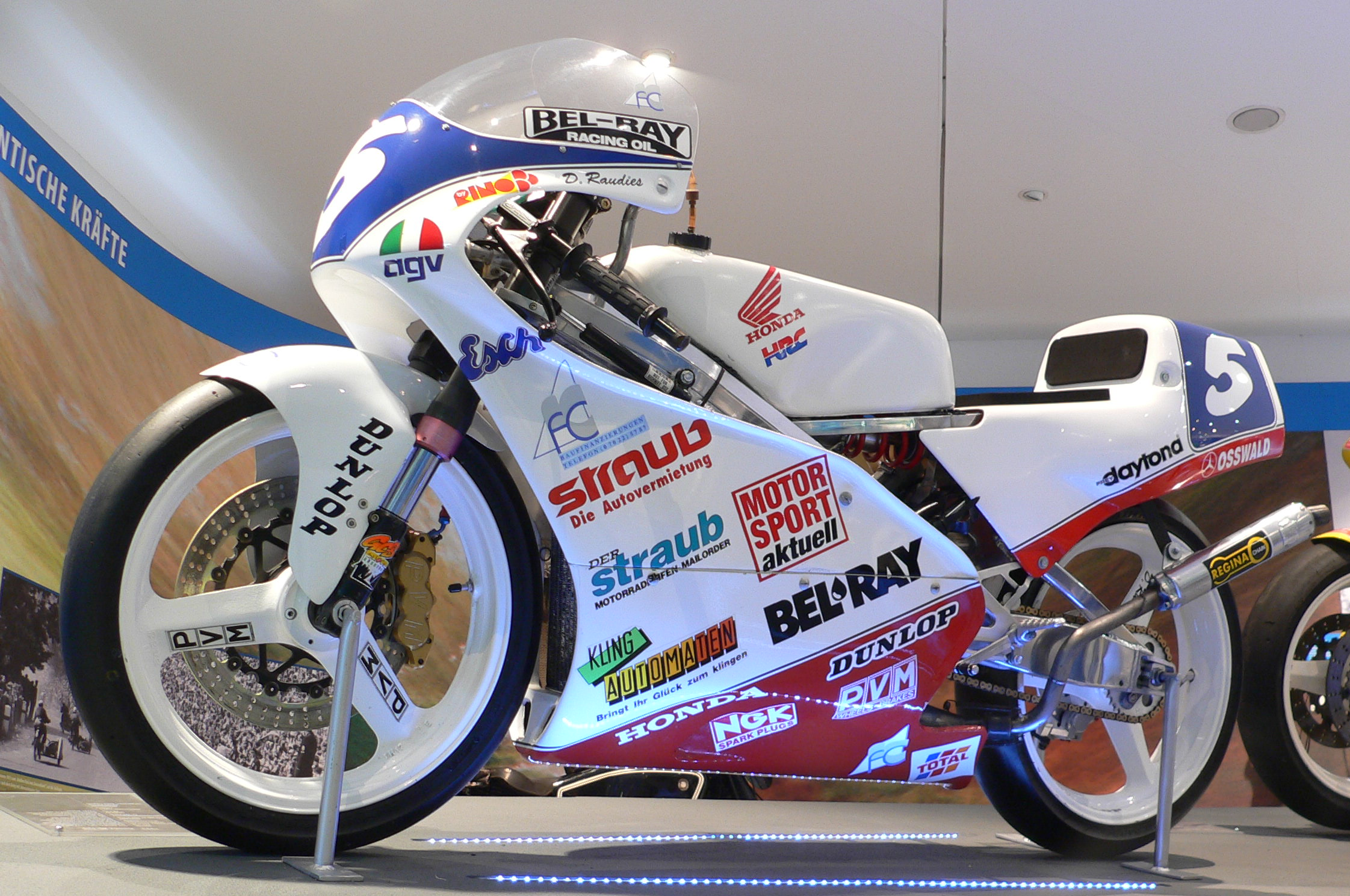 Dirk Raudies' Championship-winning 1993 Honda RS125R (124cc, single-cylinder two-stroke engine; 44 Horsepower; 12,500 RPM redline; top speed of 240 km/h)